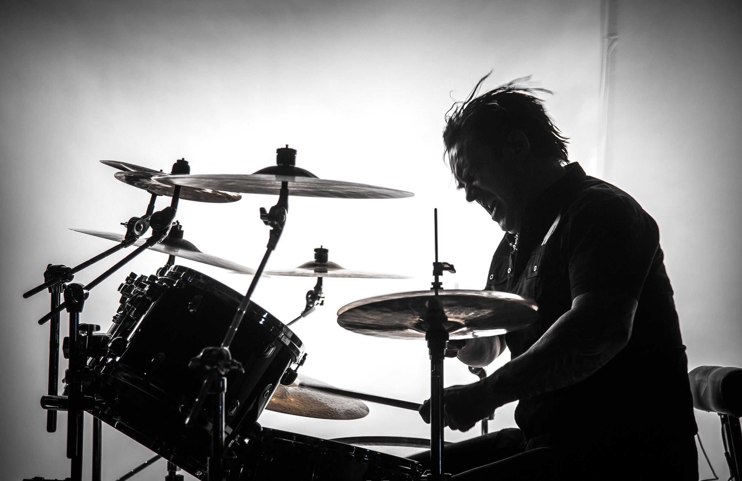 Musicvideo recording session for swedish metal band The Haunted